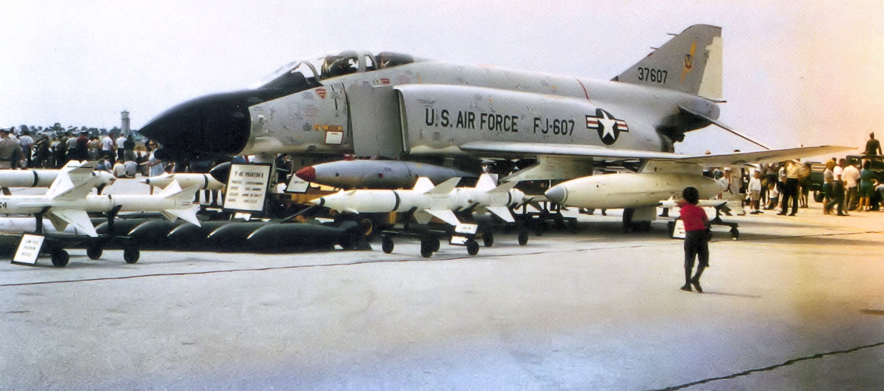 12th Tactical Fighter Wing McDonnell F-4C-20-MC Phantom 63-7607 1964 This aircraft was part of the first production block of USAF F-4 Phantom IIs. Note the "Buzz Code" FJ on the fuselage. In 1969 during the Vietnam war, this aircraft was modified as EF-4C Wild Weasel flak suppression aircraft and assigned to the 67th Tactical Fighter Squadron. It was deployed relocated to Korat RTAFB in Thaliand in 1972-72 to take part in the Linebacker raids. The aircraft survived the Vietnam war and returned to the United States, being returned to the F-4C configuration in 1978. It was assigned to Air National Guard service, and was eventually retired to AMARC as FP0733 Aug 14, 1991. The long life of this aircraft came to an end when it was transferred to Fritz Enterprises, Taylor, MI Jun 1, 1999 for scrapping.